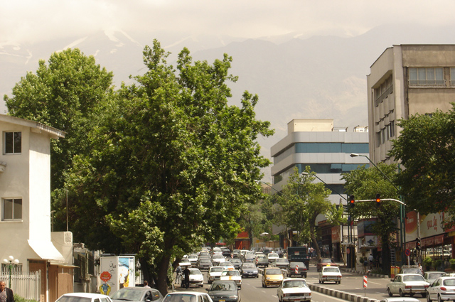 Shemiran District looking North, immediately south of "Pol e Rumi", and north of "Pol e Sadr". Photo was taken by Zereshk using a Sony 5 MegaPixel Camera on June 9th, 2005.